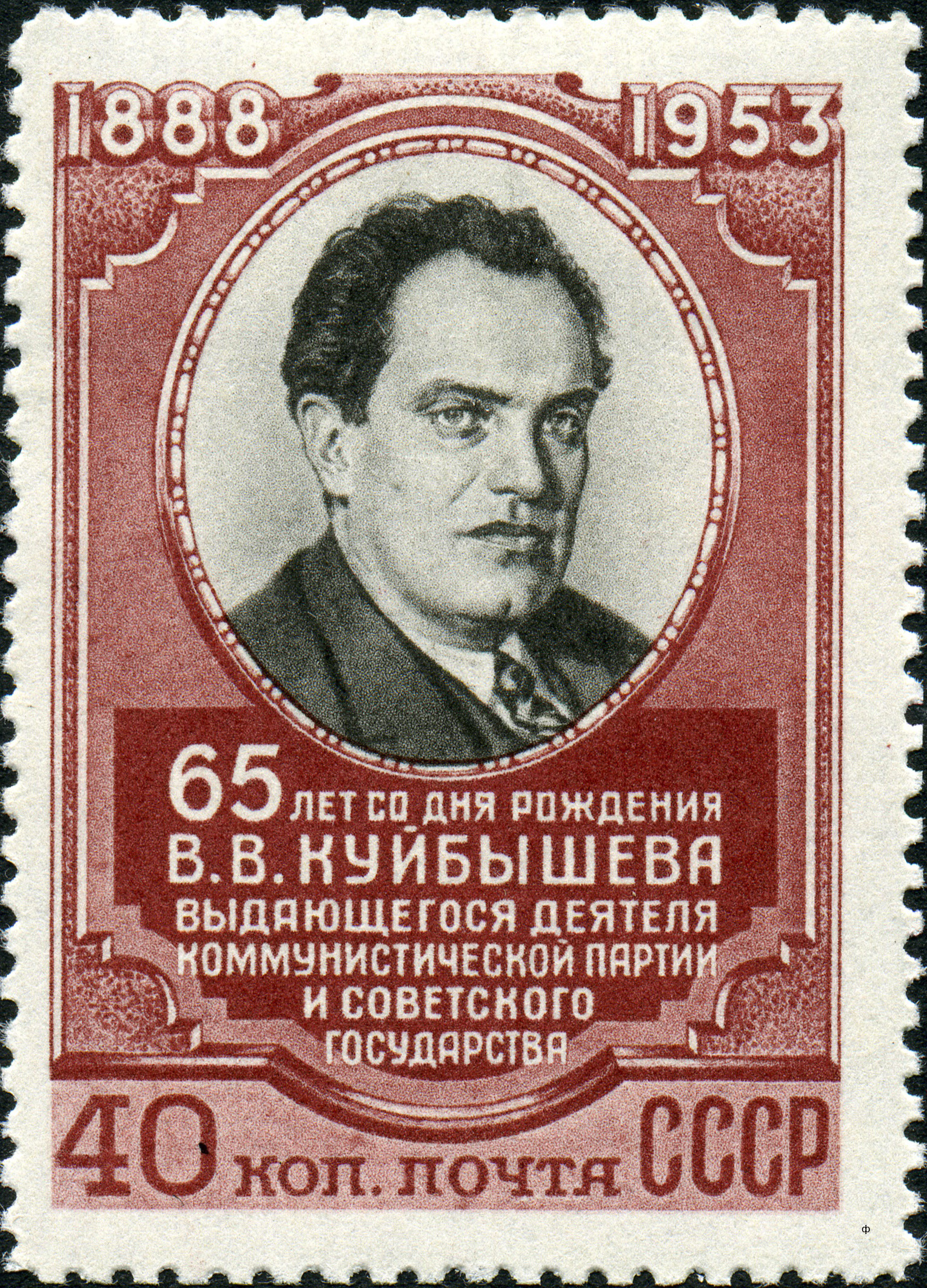 Soviet Union stamp, 65th birth anniversary of Valerian Kuibyshev (1888-1935); 1953, 40 kop., used, CPA No. 1718.